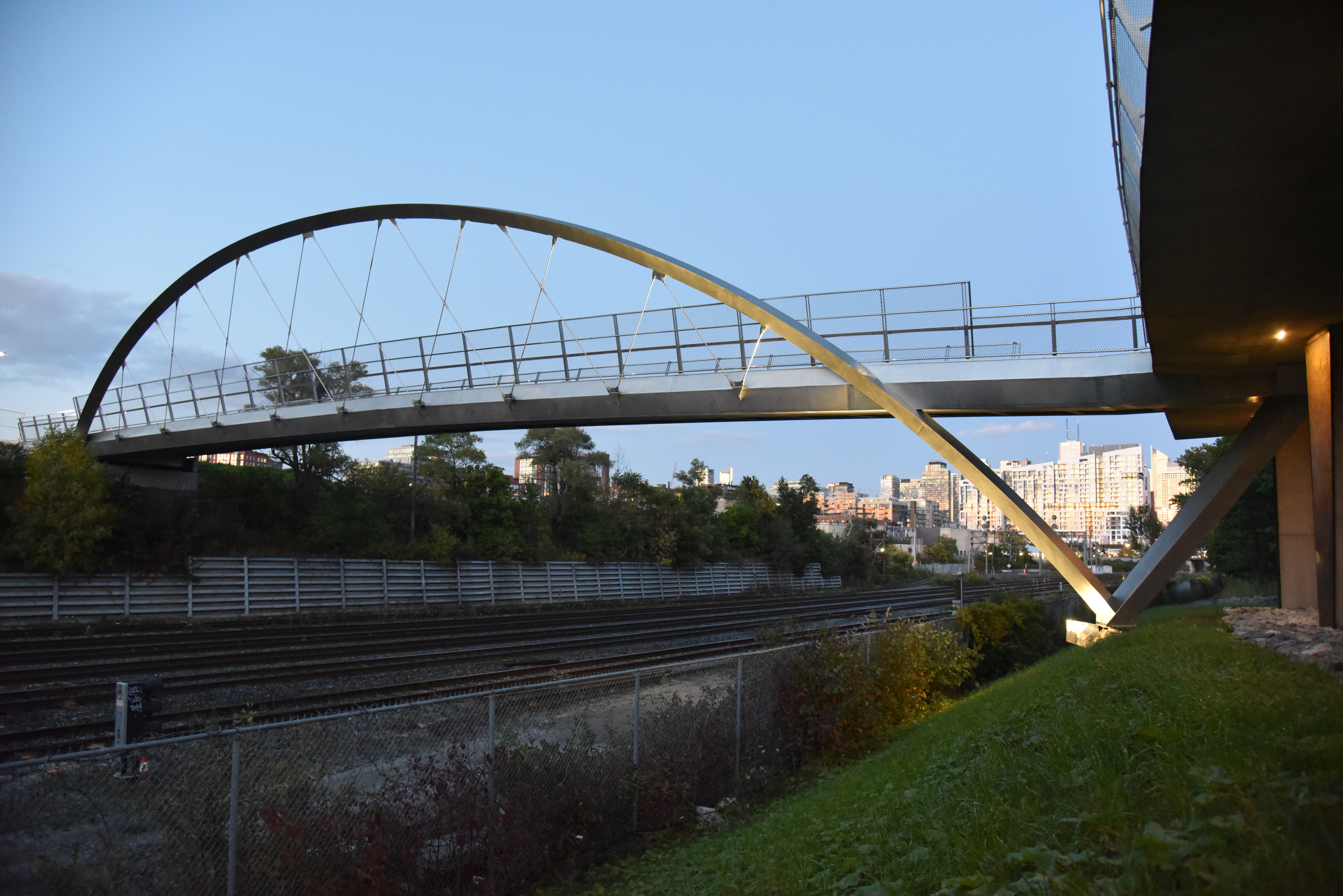 Garrison Crossing - North Bridge